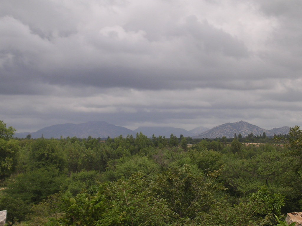 Shathashrunga